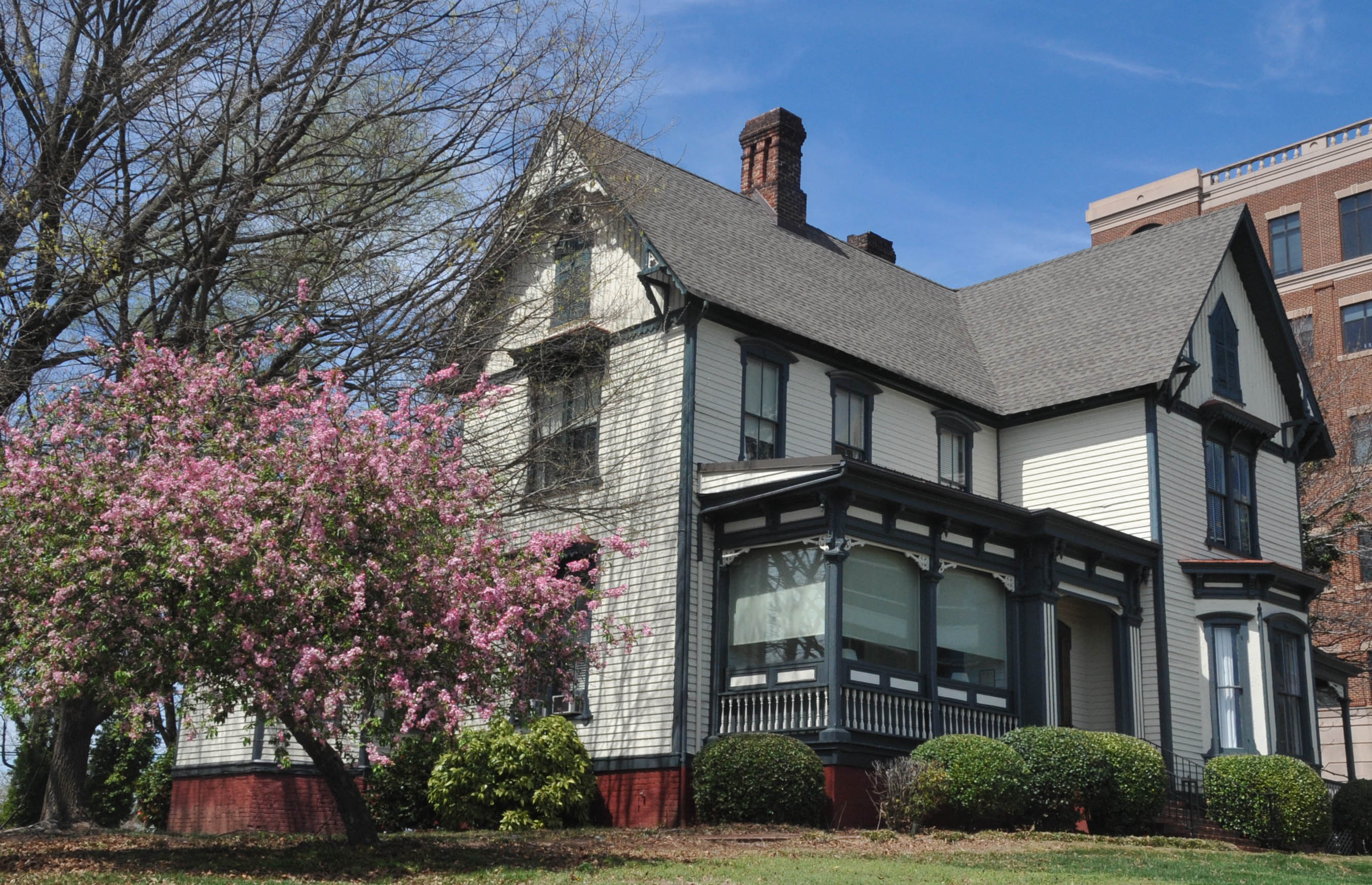 1883 LATE VICTORIAN HOUSE FOR ROGERS WHO WAS AN ASTUTE BUSINESSMAN IN THE HARDWARE BUSINESS AND ALSO BOYHOOD HOME OF DR. FRANCIS ROGERS, CHIEF CHEMIST FOR STANDARD OIL AND WHO DEVELOPED METHODS FOR REFINING GASOLINE FROM CRUDE OIL